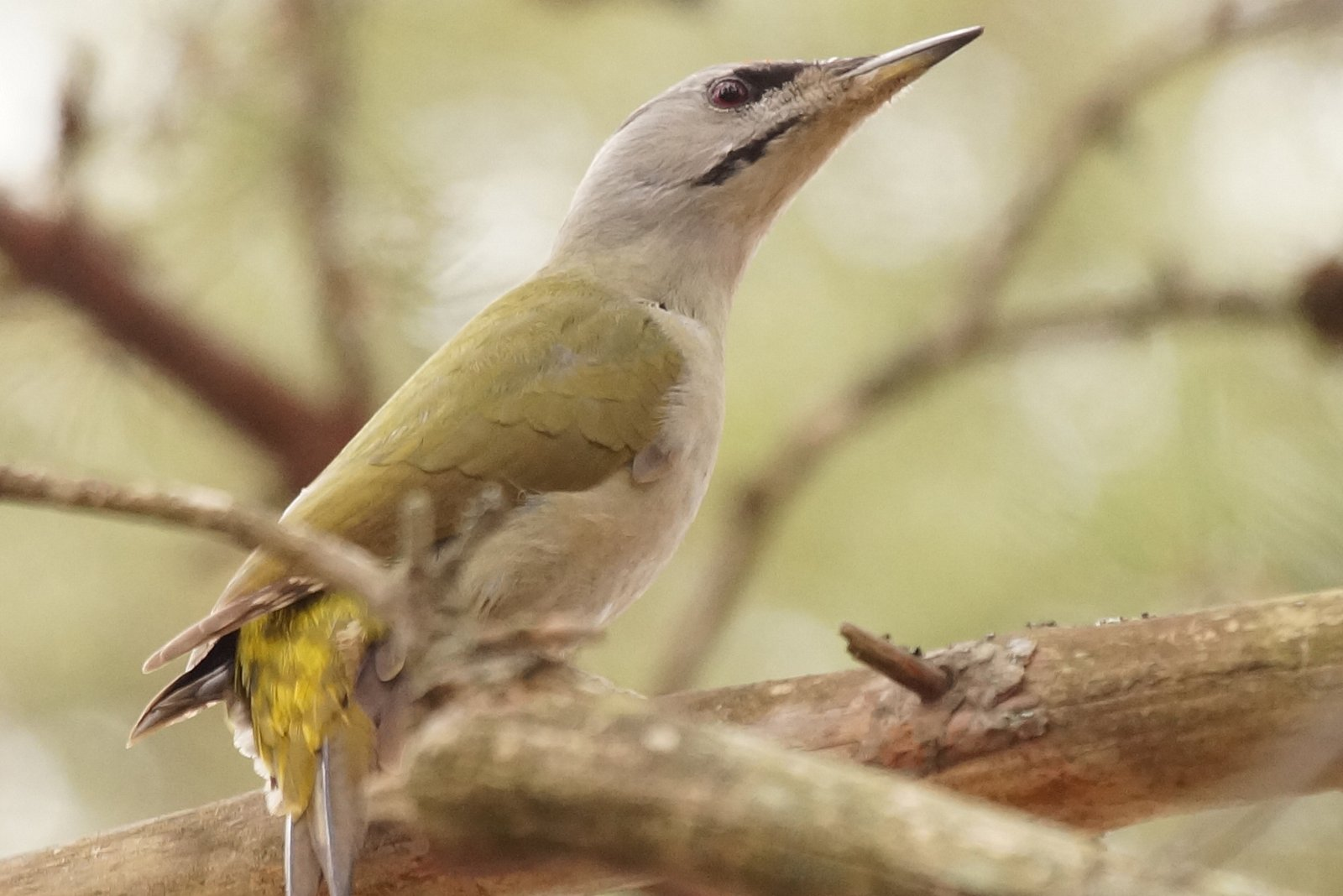 Grey-headed woodpecker (Picus canus) in Pälkäne, Finland